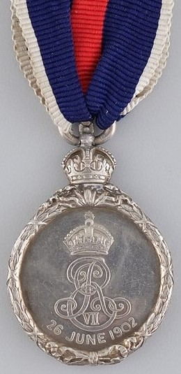 King Edward VII's Coronation Medal 1902 reverse